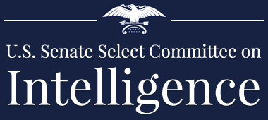 United States Senate Select Committee on Intelligence